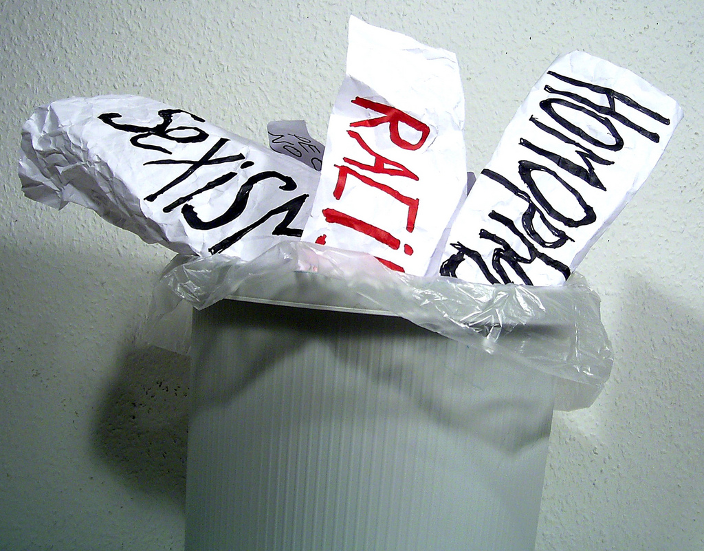 Put Sexism, Racism an Homophobia in the trash